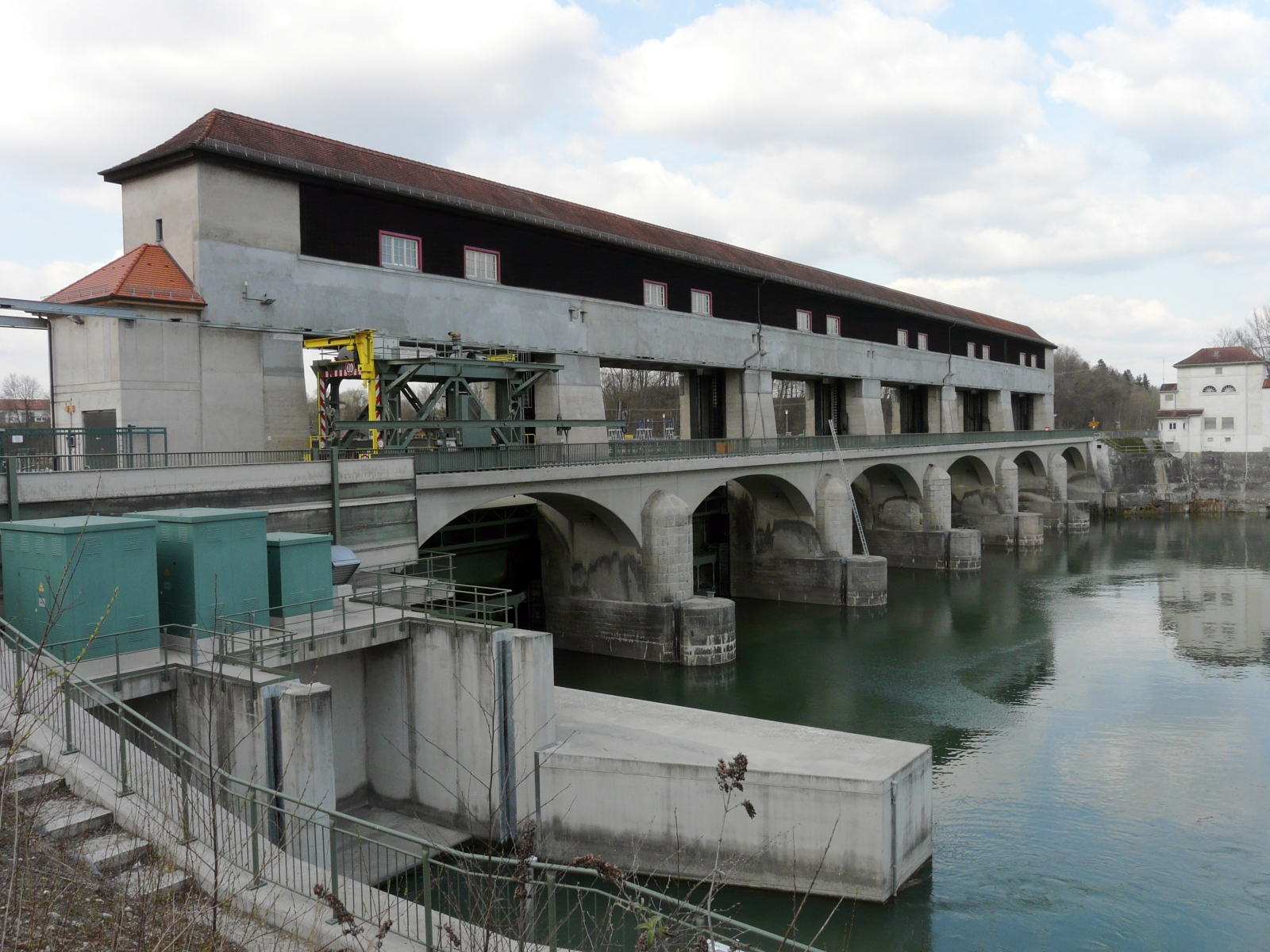 View of the Jettenbach Weir (Jettenbacher Wehr in German) from south-west.